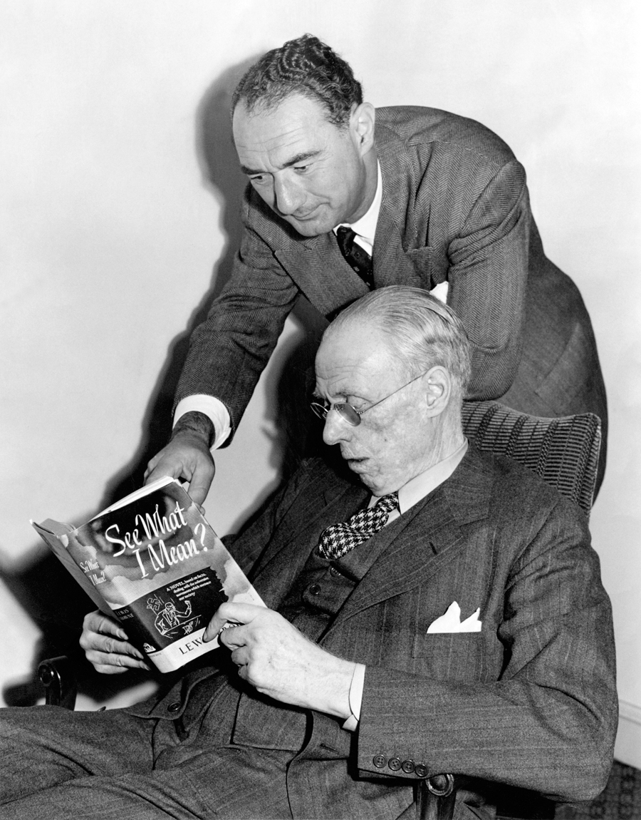 Publicity photograph for the 1943 U.S. lecture tour of Sinclair Lewis and Lewis Browne